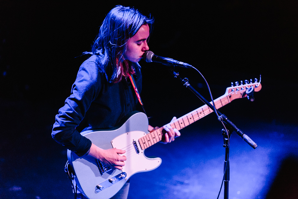 Julien Baker performing at Rough Trade NYC on January 25, 2016.